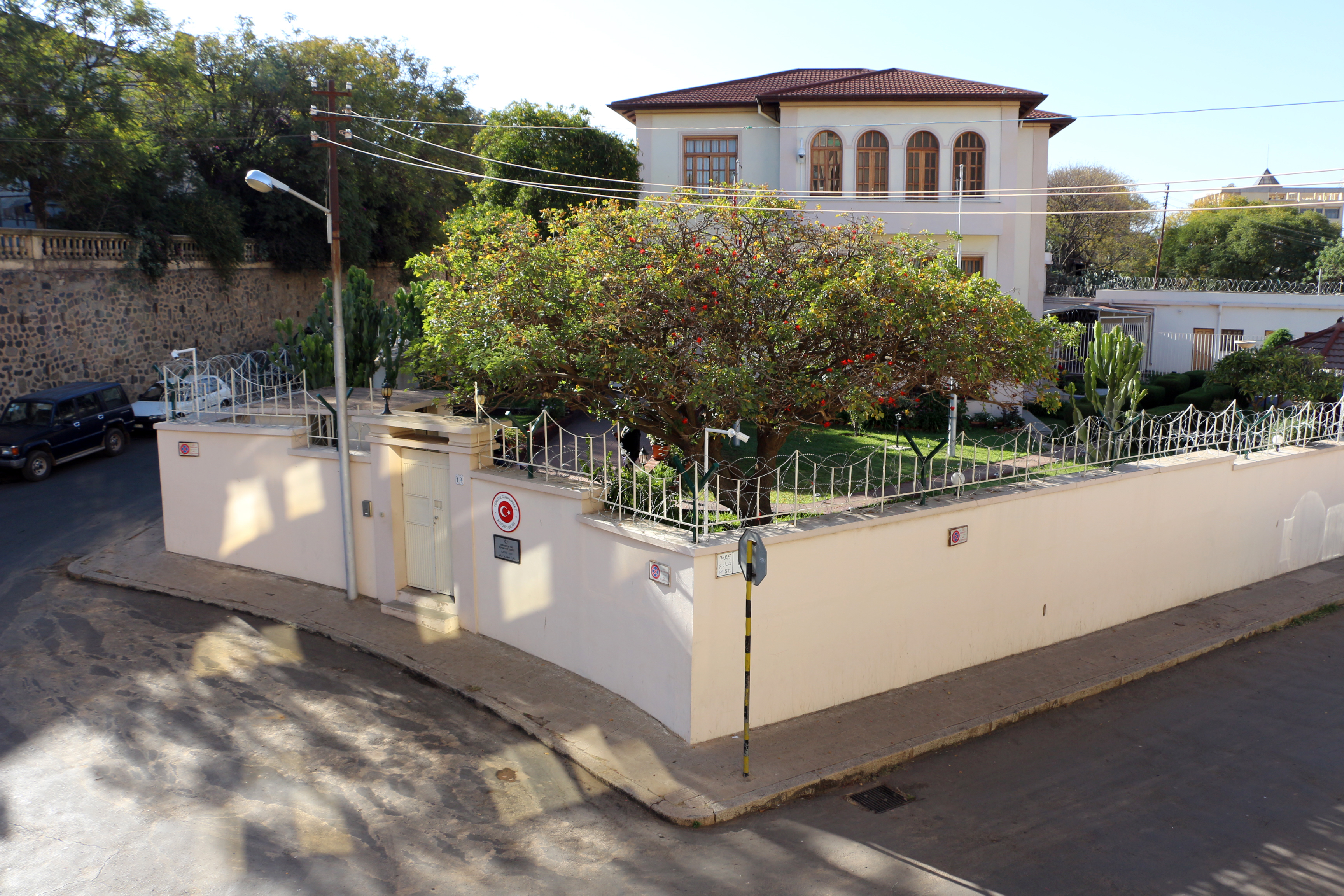 Buildings in Asmara